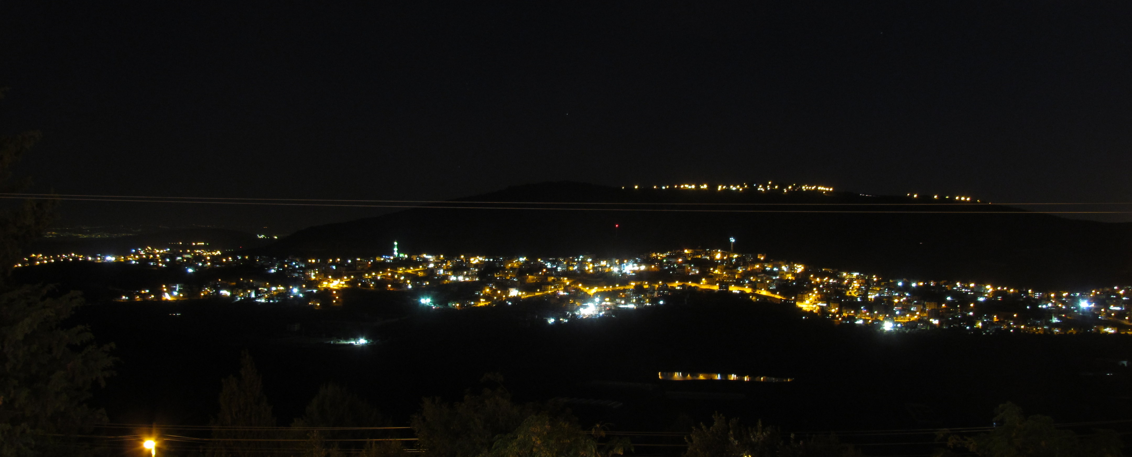 Deir Hanna at night as seen from Lotem